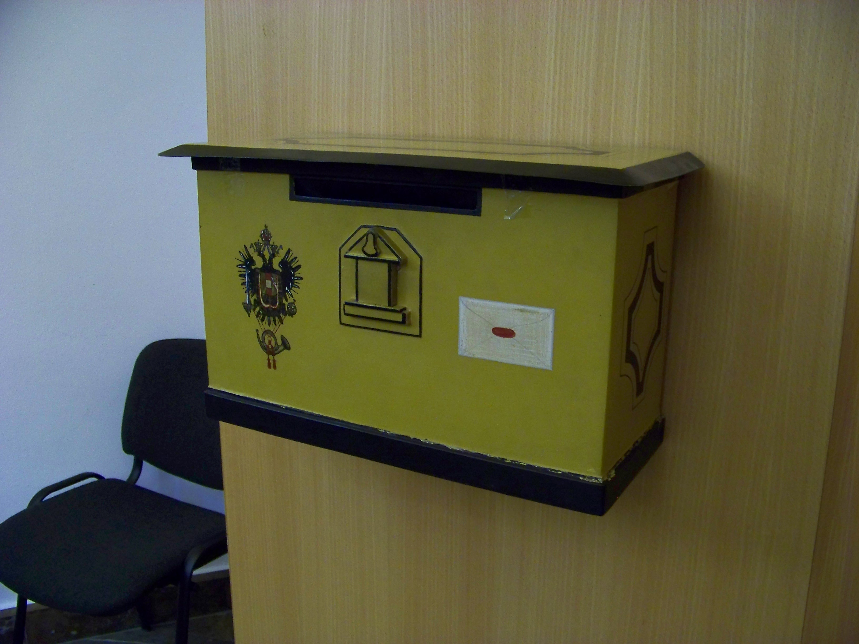 Prague-New Town, Czech Republic. Nové mlýny 1239/2, Novomlýnská 1239/1, Postal Museum at Prague Night of Museums, a post box.